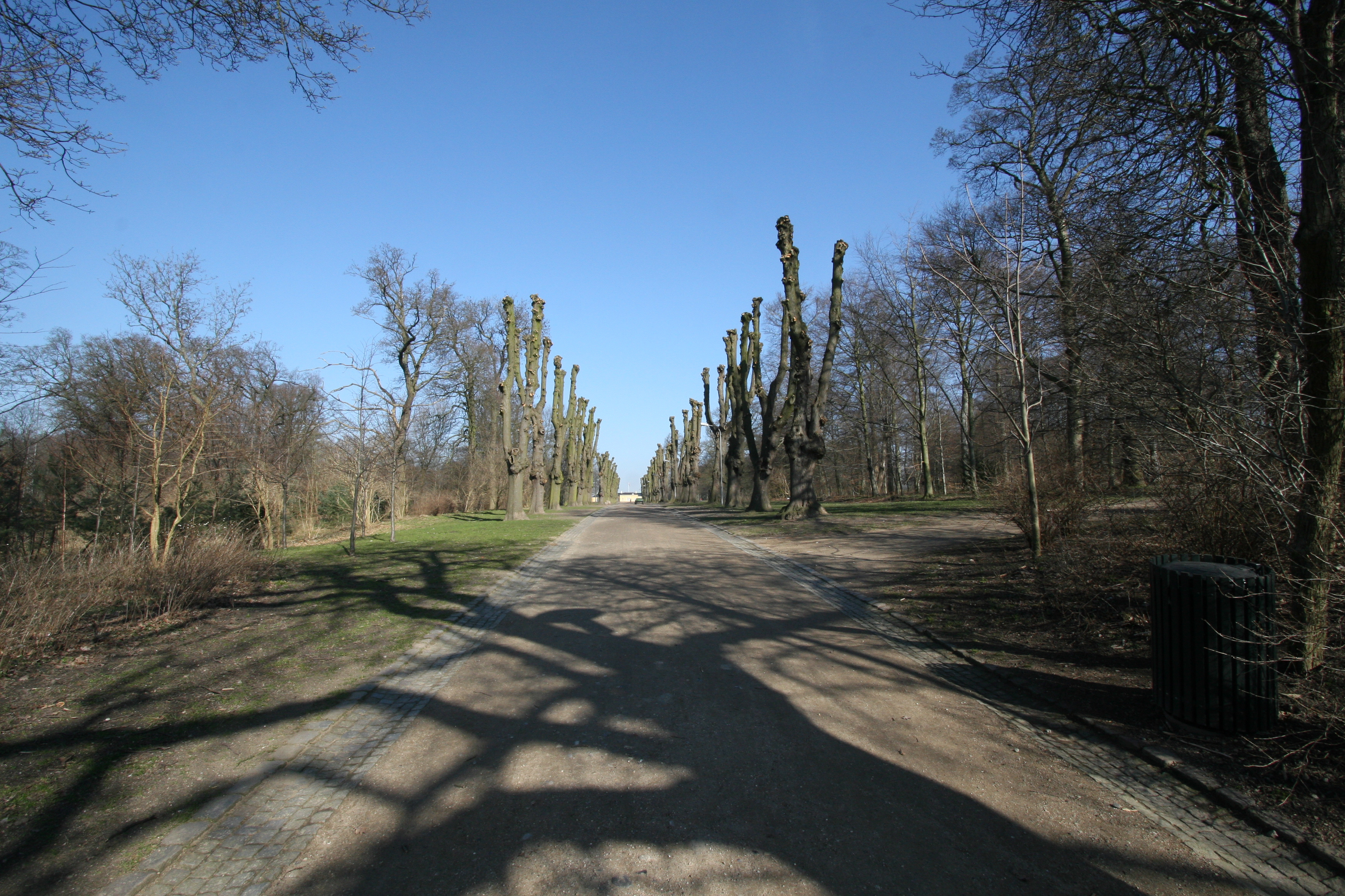 Center path.